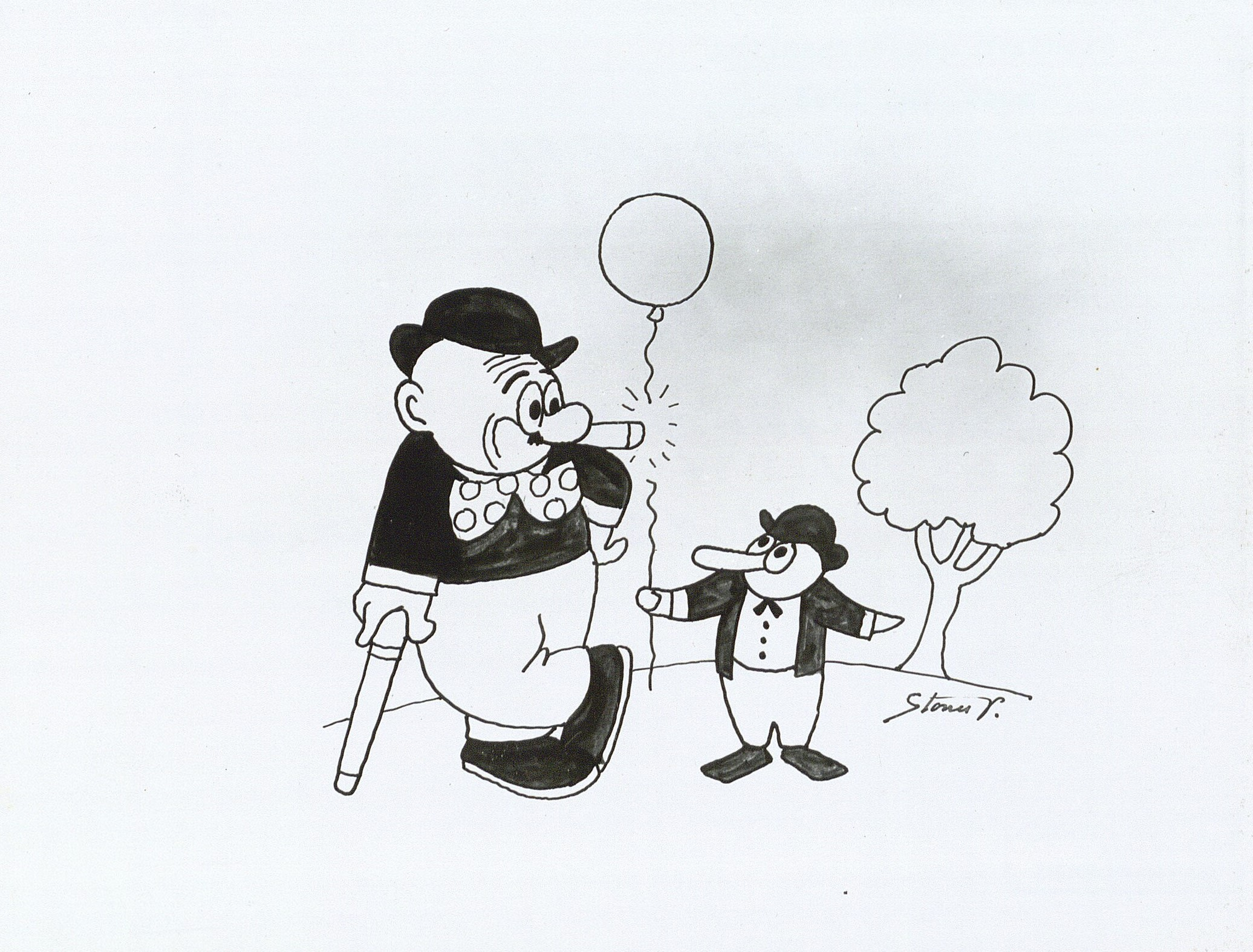 Storm P.'s iconic Peter og Ping